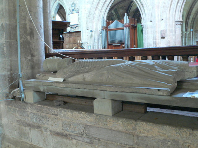 Roger de Clifford Effigy of Roger de Clifford, a knight who was buried at Abbey Dore. The head was stolen and has been replaced.